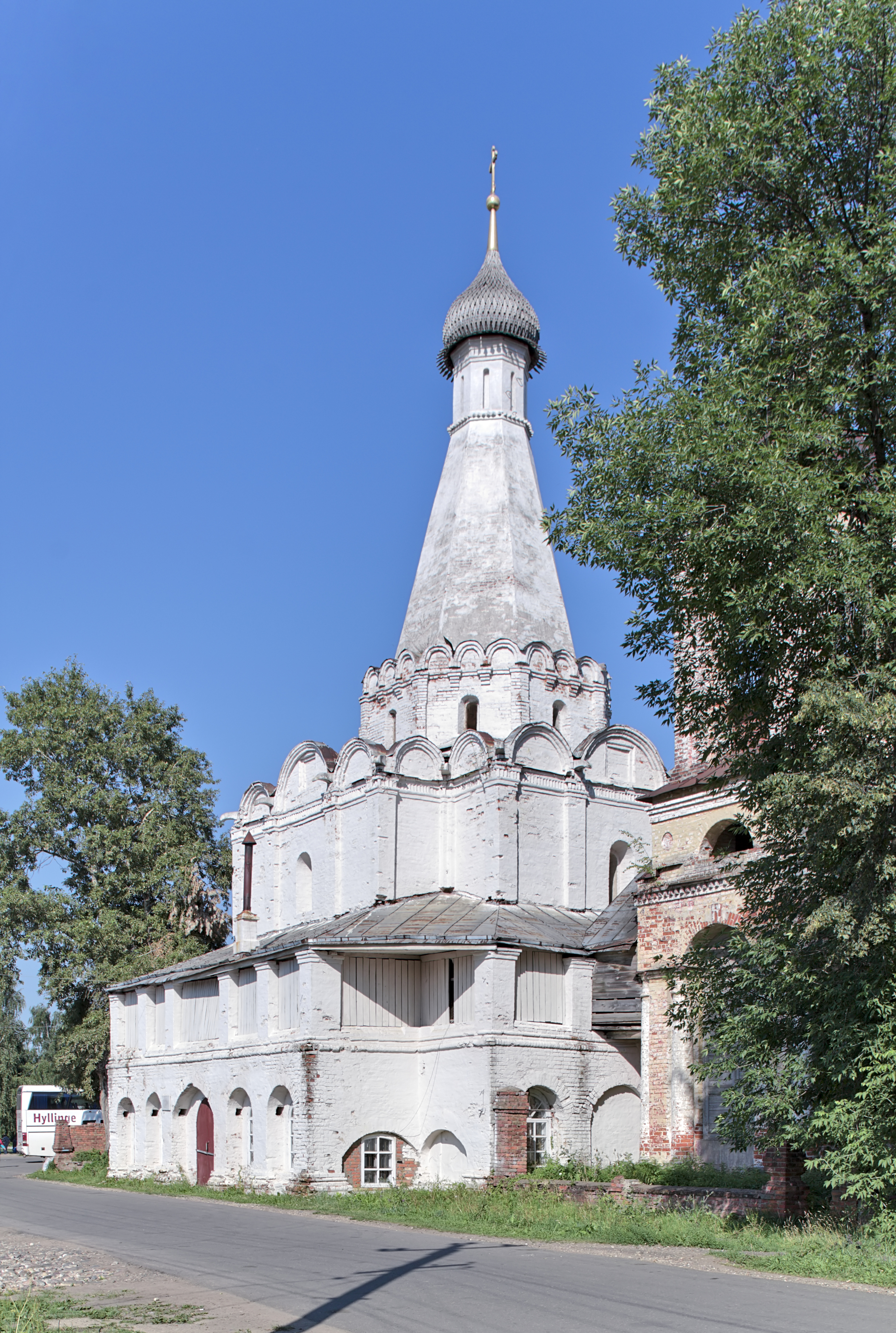 The church of Saint Metropolitan Peter, Pereslavl